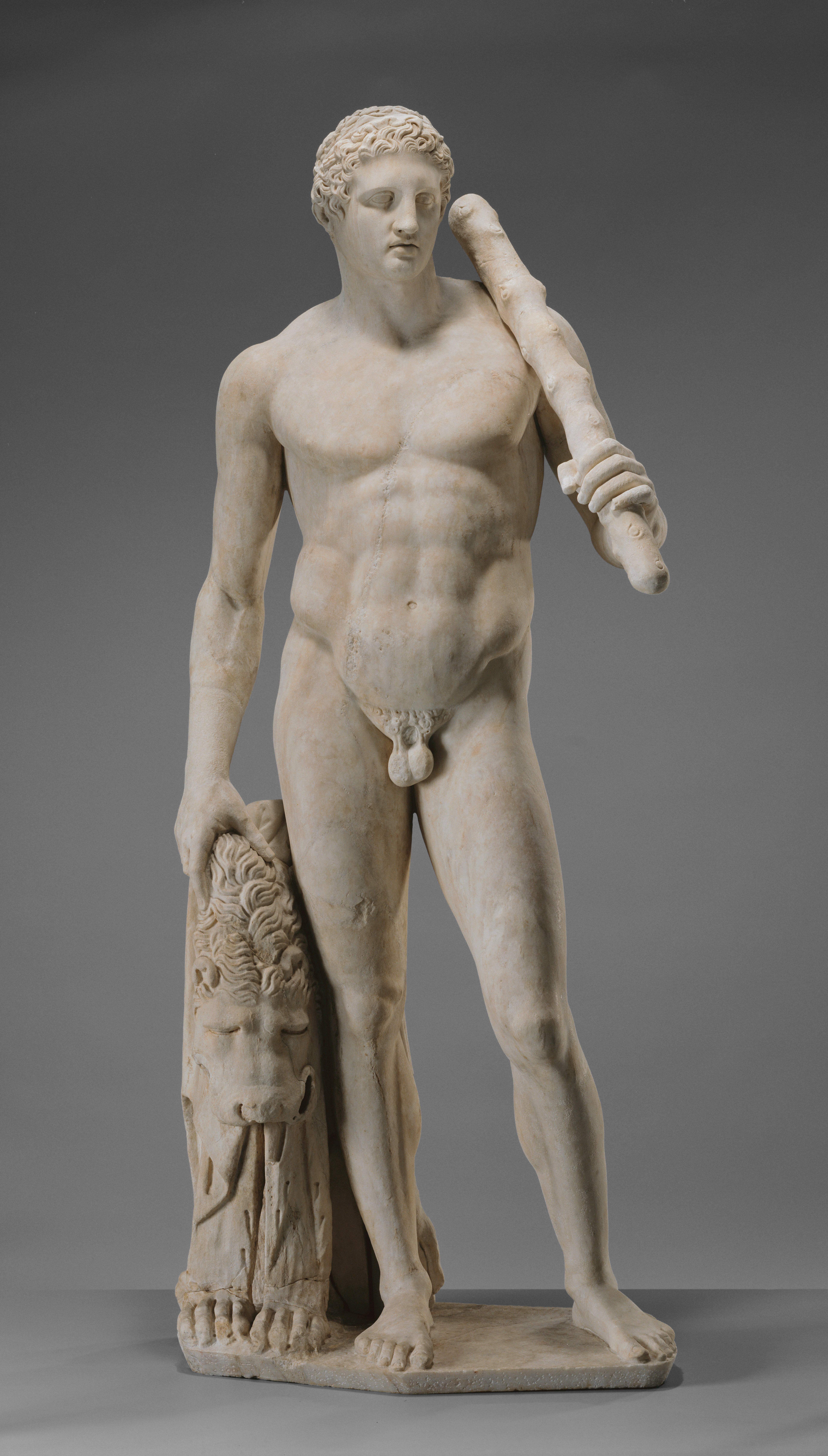 Statue of Hercules (Lansdowne Herakles); Unknown; Roman Empire; about A.D. 125; 70.AA.109.